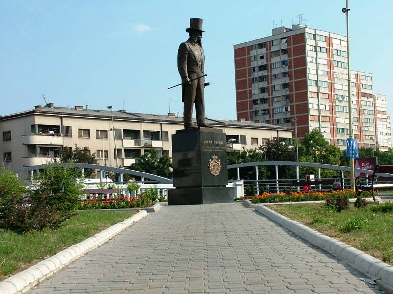 The square Jovan Ristic 1